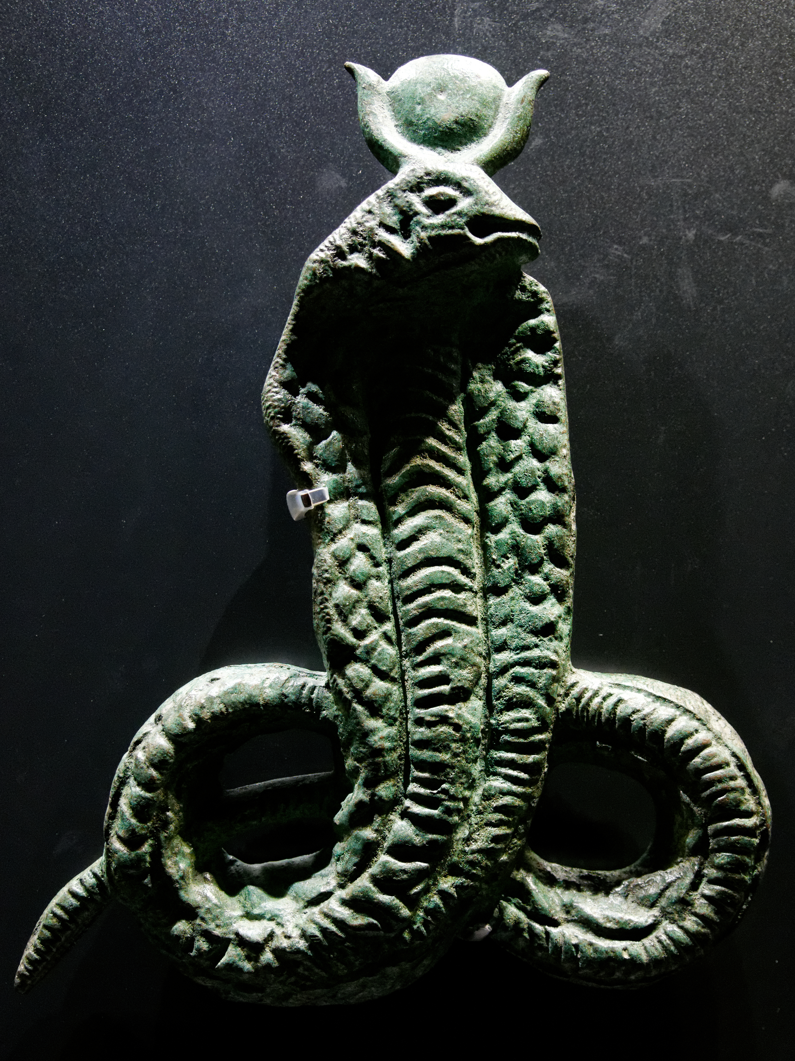 Relief with Isis-Thermoutis.